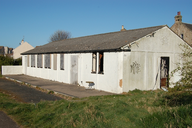 Guardroom, RAF Anstruther The guardroom to the former domestic site of RAF Anstruther. Behind me were the barrack blocks for the RAF station which went on to see service as Anstruther's holiday village and have now been pulled down and a modern development is now taking place. The buildings to the right of the old guardroom on Toll Road were married quarters for other ranks. RAF Anstruther was part of the Chain Home system (CH). Chain Home was the world's first RADAR system to see active service. CH was developed in the pre war years by a team lead by Watson Watt who to my mind was a bit of an unsung hero of the time. It was primitive, but when your back's against the wall you go with what you have got. In 1939 Britain did and CH worked. RAF Anstruther's operational site and its masts were, to the best of my ability, thought to have been in the area of NO5608. This area went on to become the site of the cold war "secret bunker". Totally open to corrections please email me via the site. Thanks to James Allan and Dennis Anderson for further information about the station.